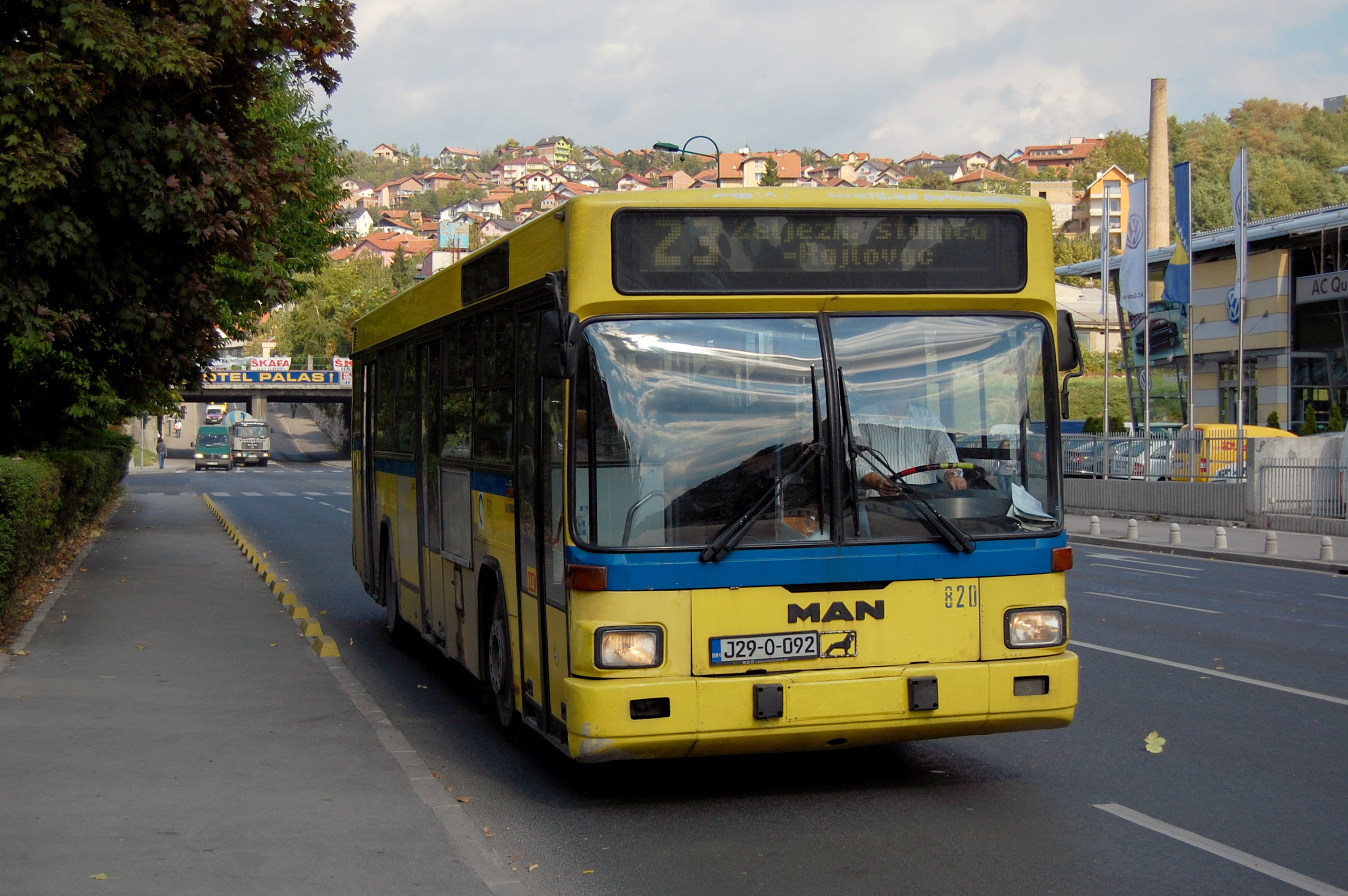 Bus #820 at Energoinvest, Line #23 Željeznička stanica - Rajlovac, October 7, 2011